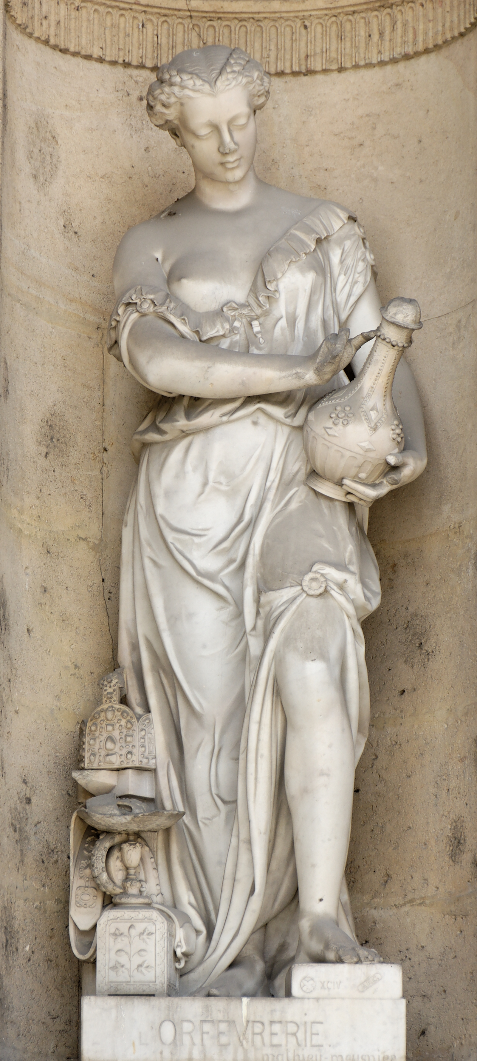 Goldsmithery (1867), by Roland Mathieu-Meusnier (1824-1896). West façade of the Cour Carrée in the Louvre palace, Paris.